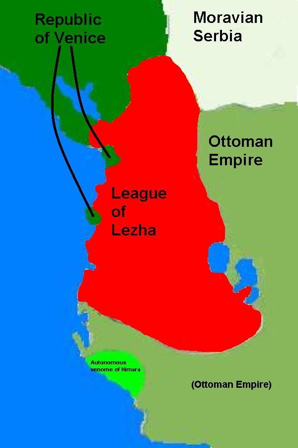 League of Lezhë